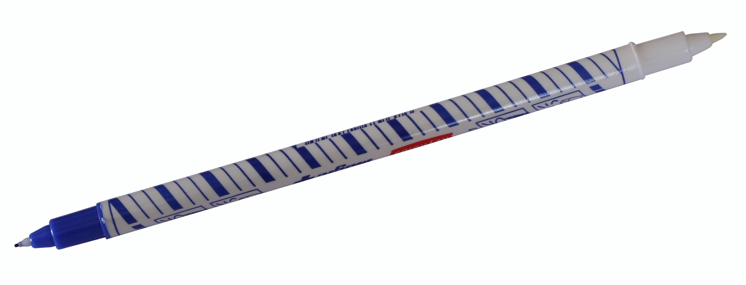 An ink eraser.